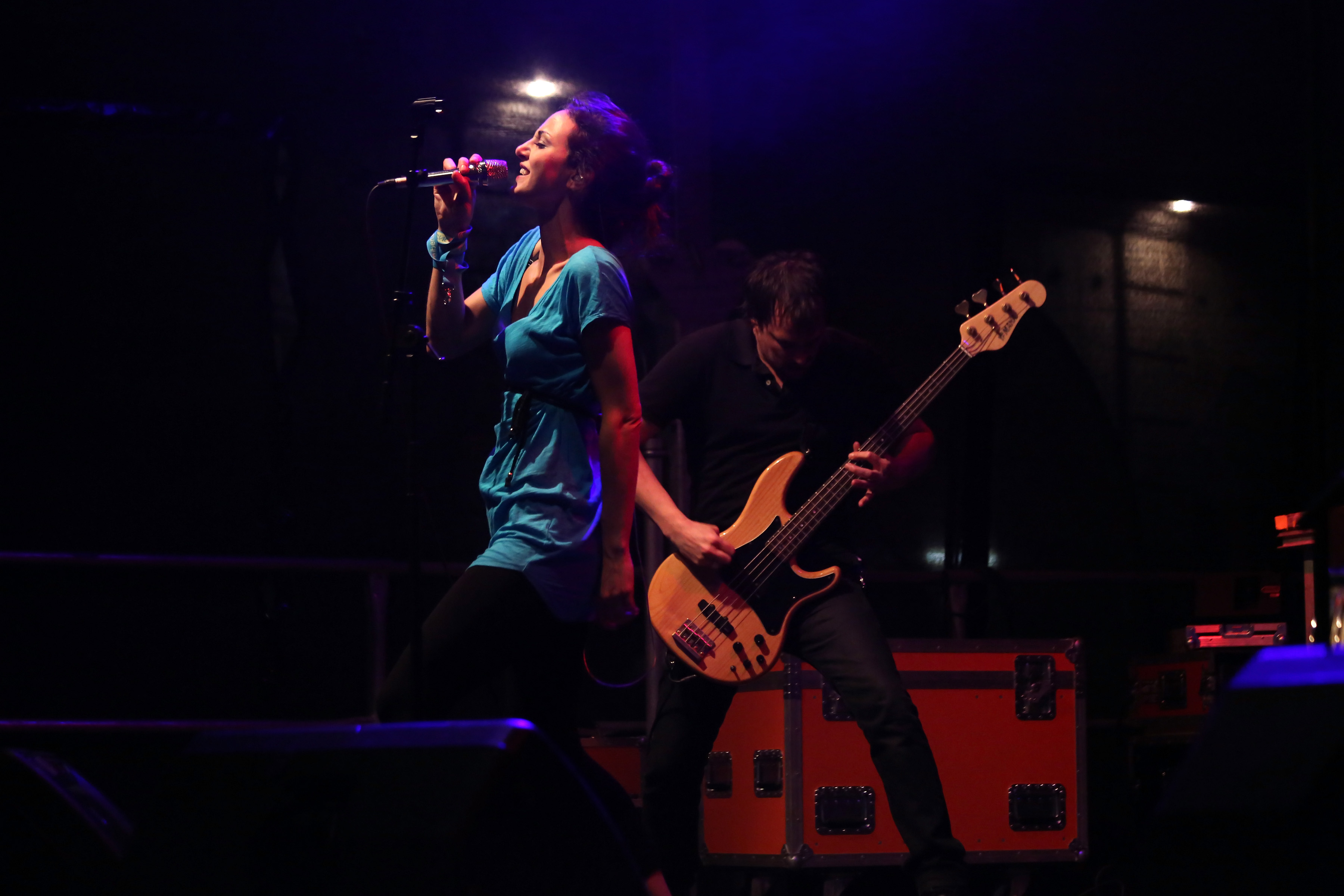 Sofa Surfers Soundsystem feat. Saedi, concert at Donaukanaltreiben 2013 in Vienna, Austria.